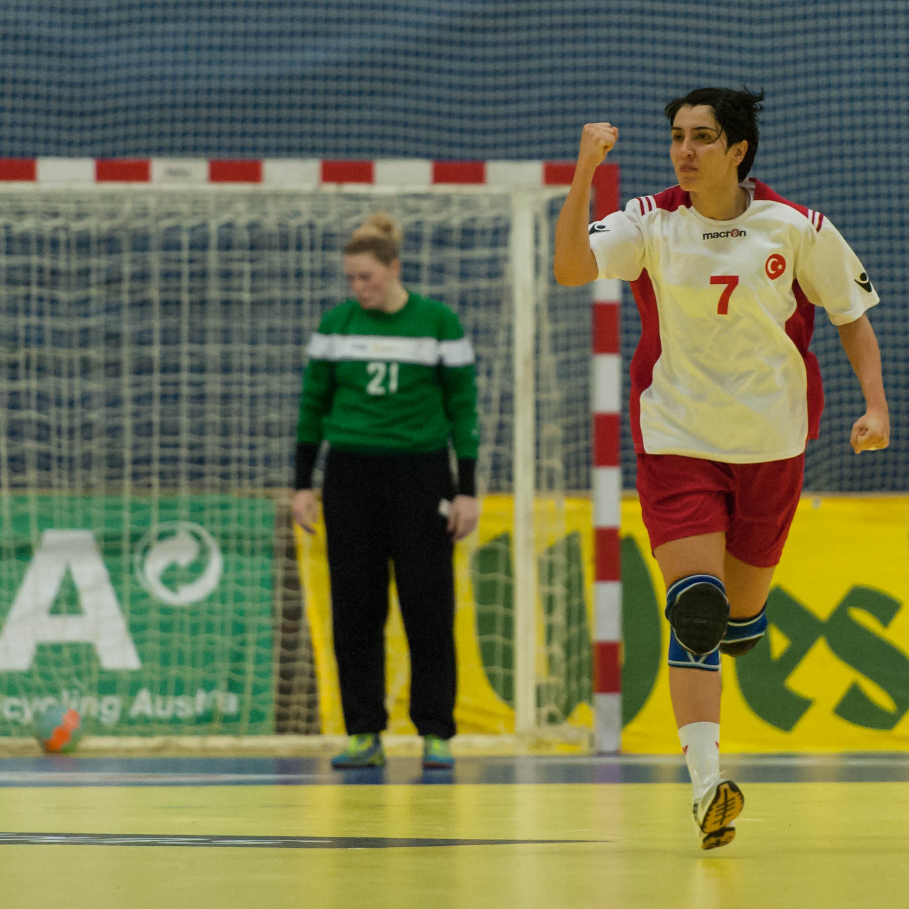 2015 World Women's Handball Championship Qualification 2014-12-06: Yeliz Özel